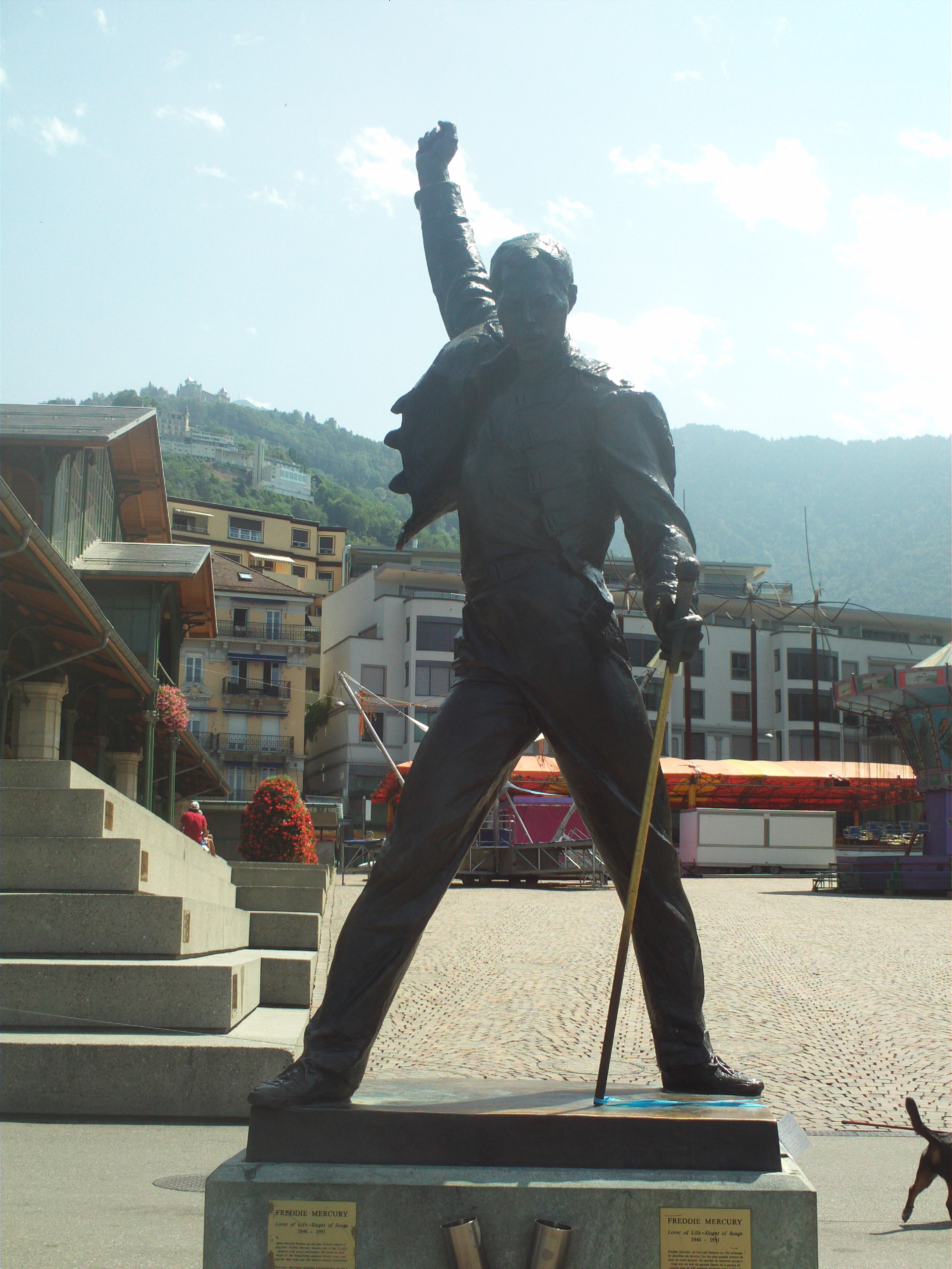 Likely the best-known statue in Montreux, Switzerland: Freddie Mercury (from the rock group Queen) at the shore of Lake Geneva.